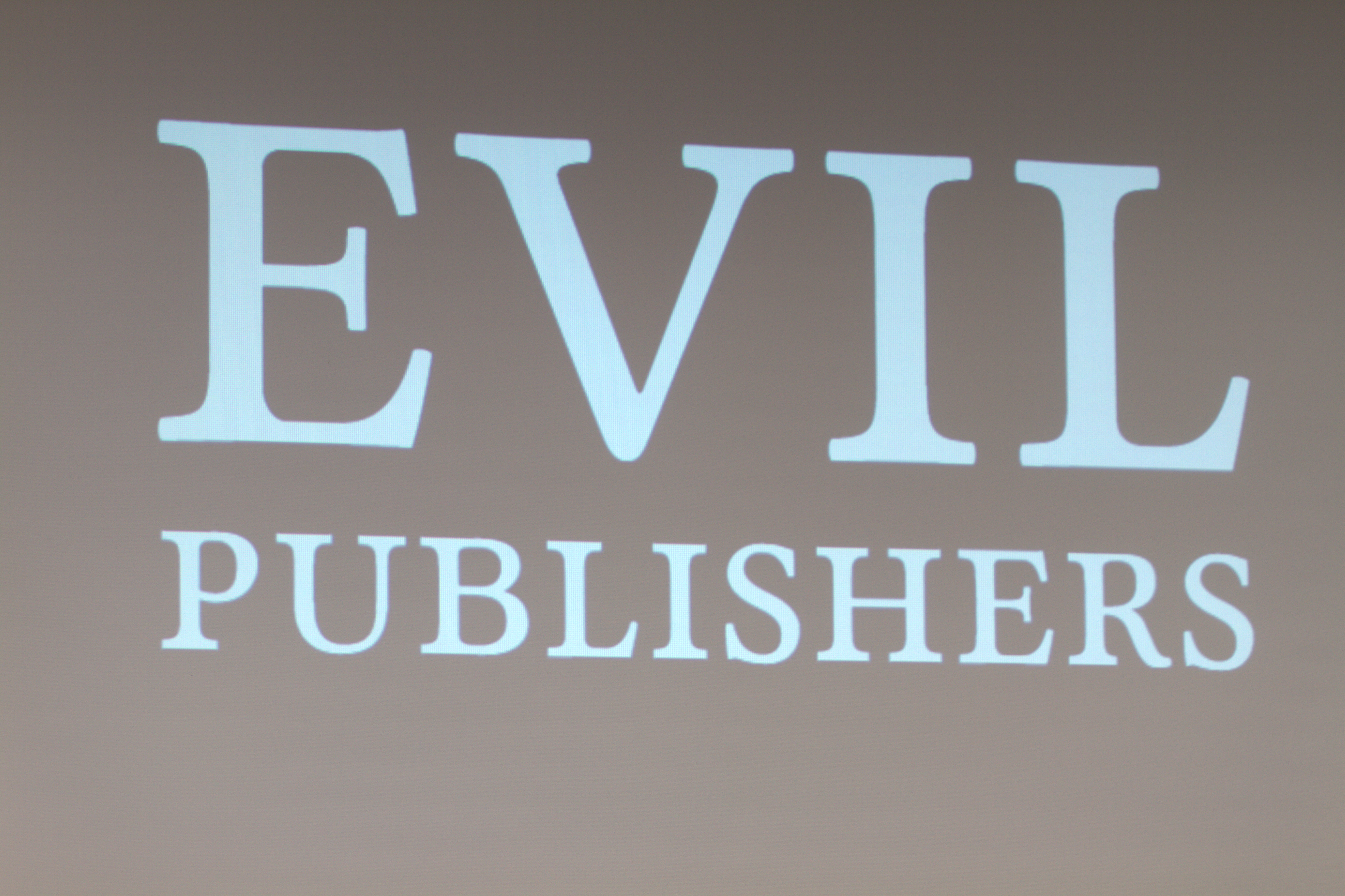 Evil publishers Jean-Fred, Hacking the domain public - Wikimania 2012, Washington DC